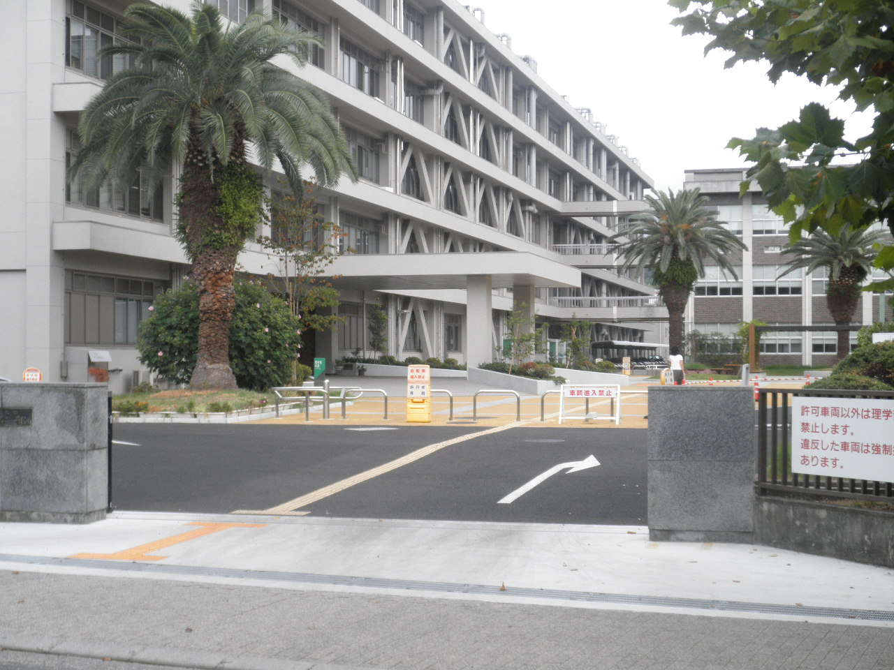 Ehime University department of science main building